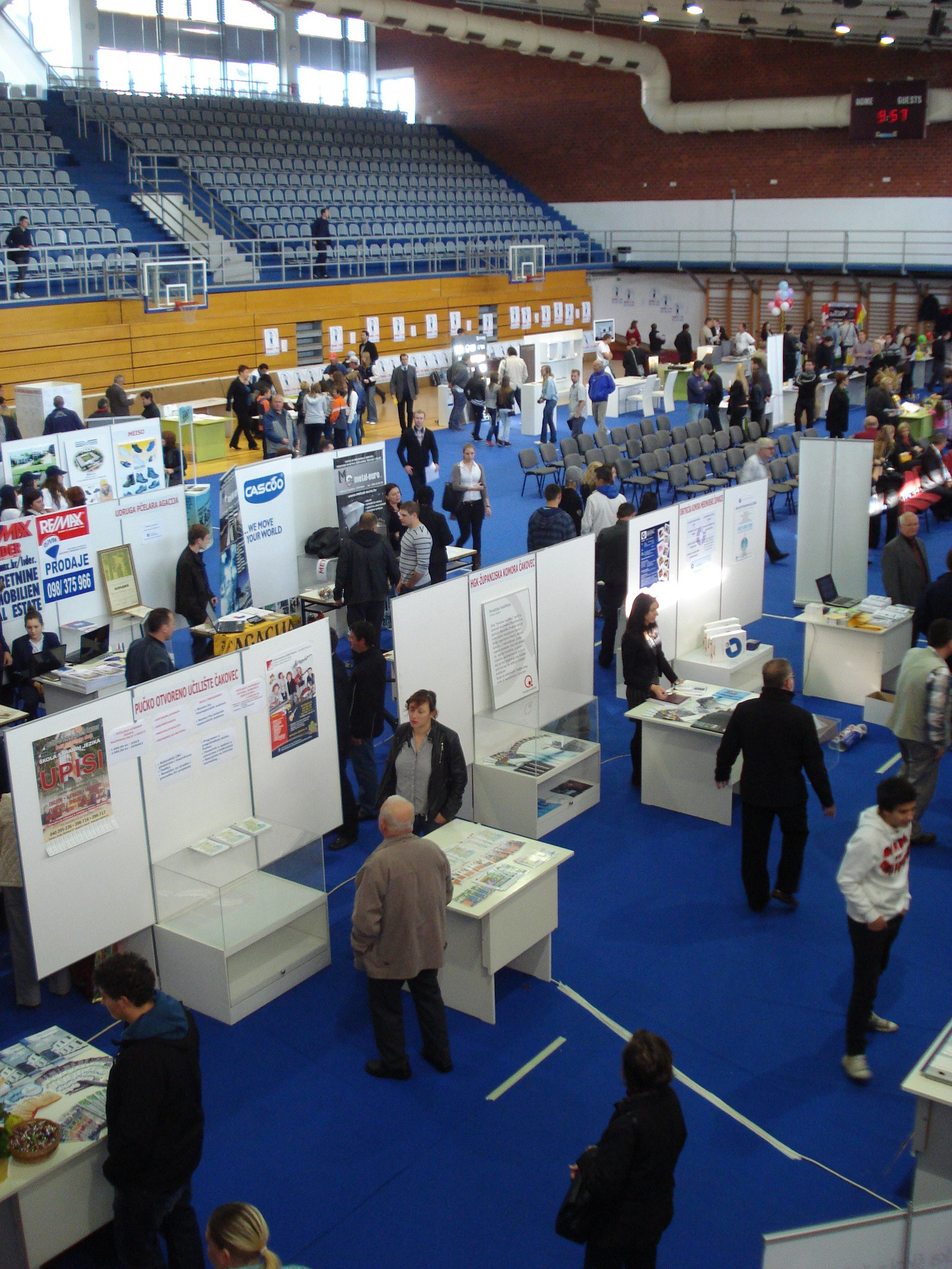 Job Fair and Young Entrepreneurs Trade Fair 2013. in Čakovec, Medjimurje County, Croatia - exhibition standsHrvatski: Sajam poslova i Sajam mladih poduzetnika 2013. u Čakovcu, Međimurska županija, Hrvatska - izložbeni štandovi